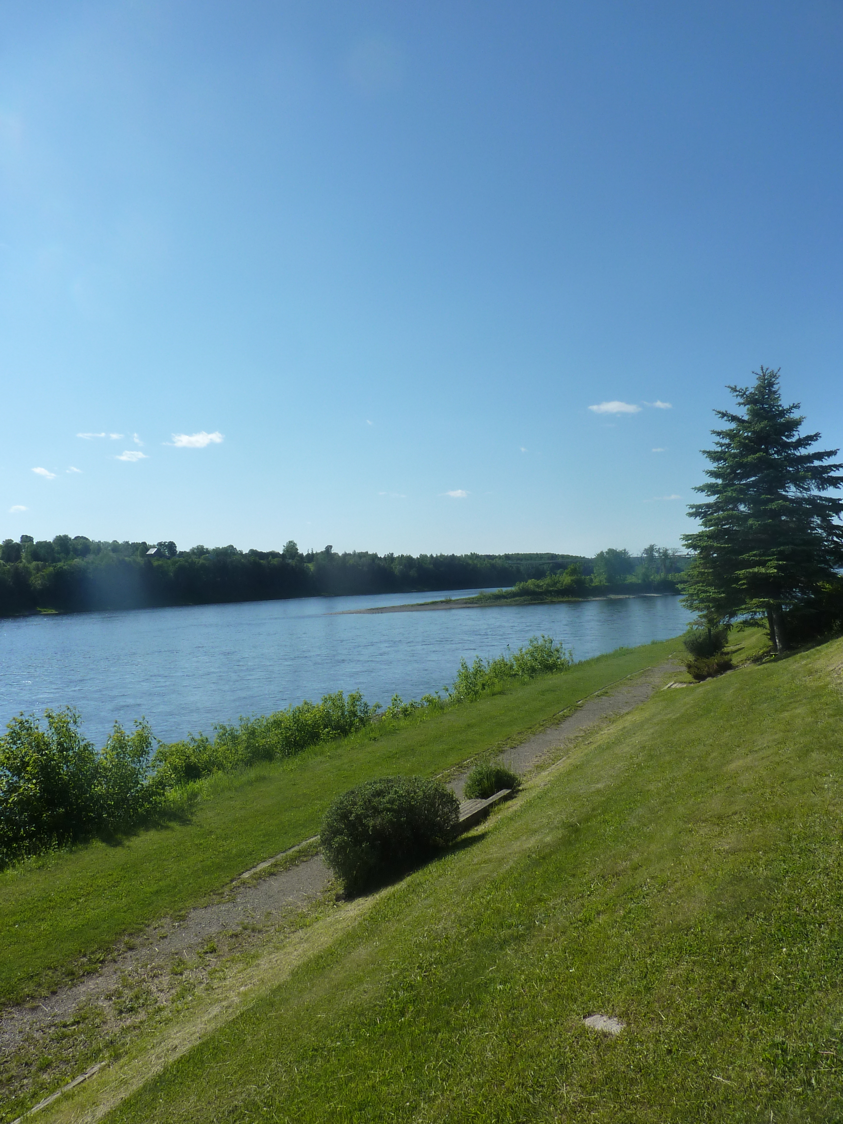 Saint John River at Hartland, New Brunswick